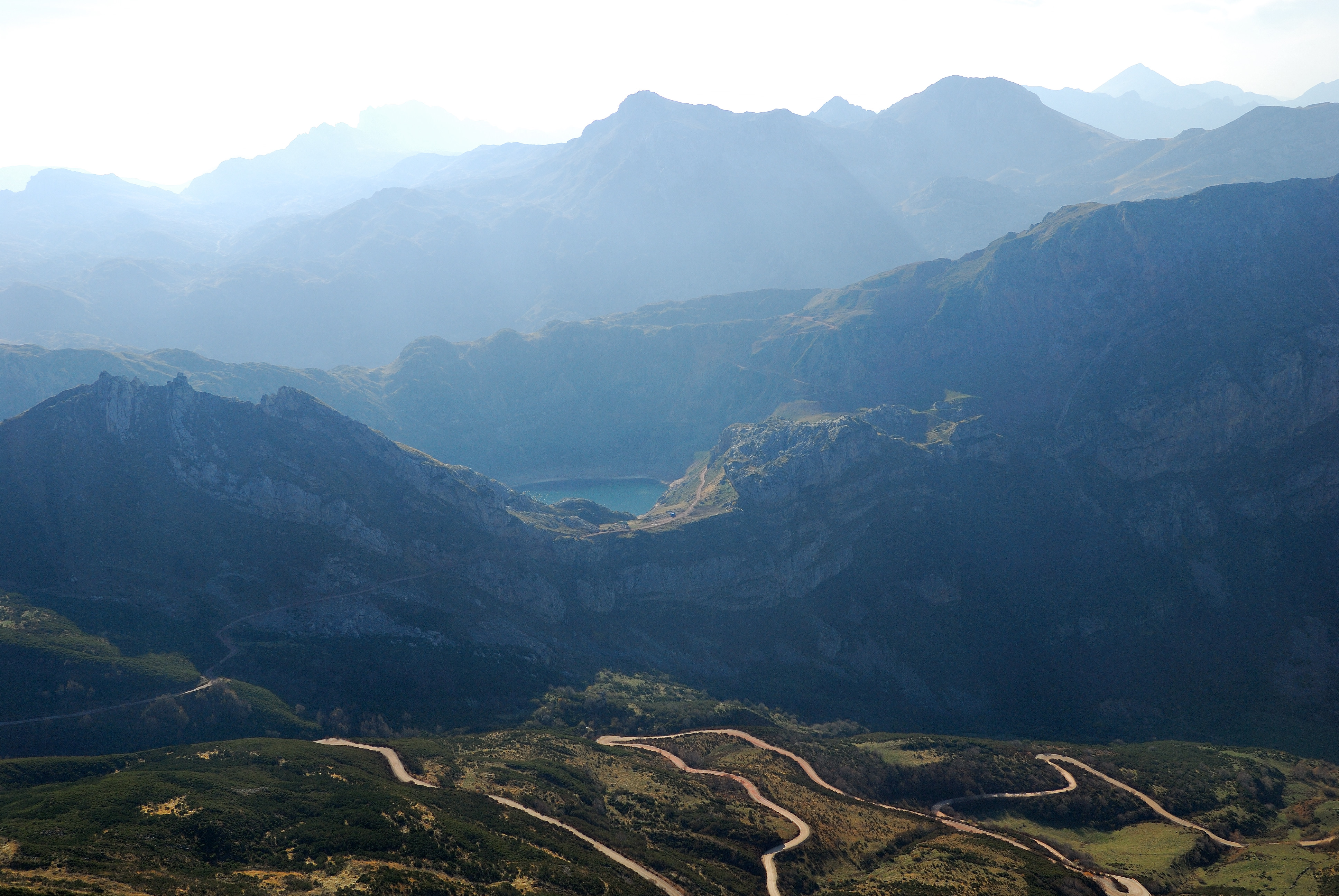 Views of Lake Somiedo and natural park from the top of Bígaros